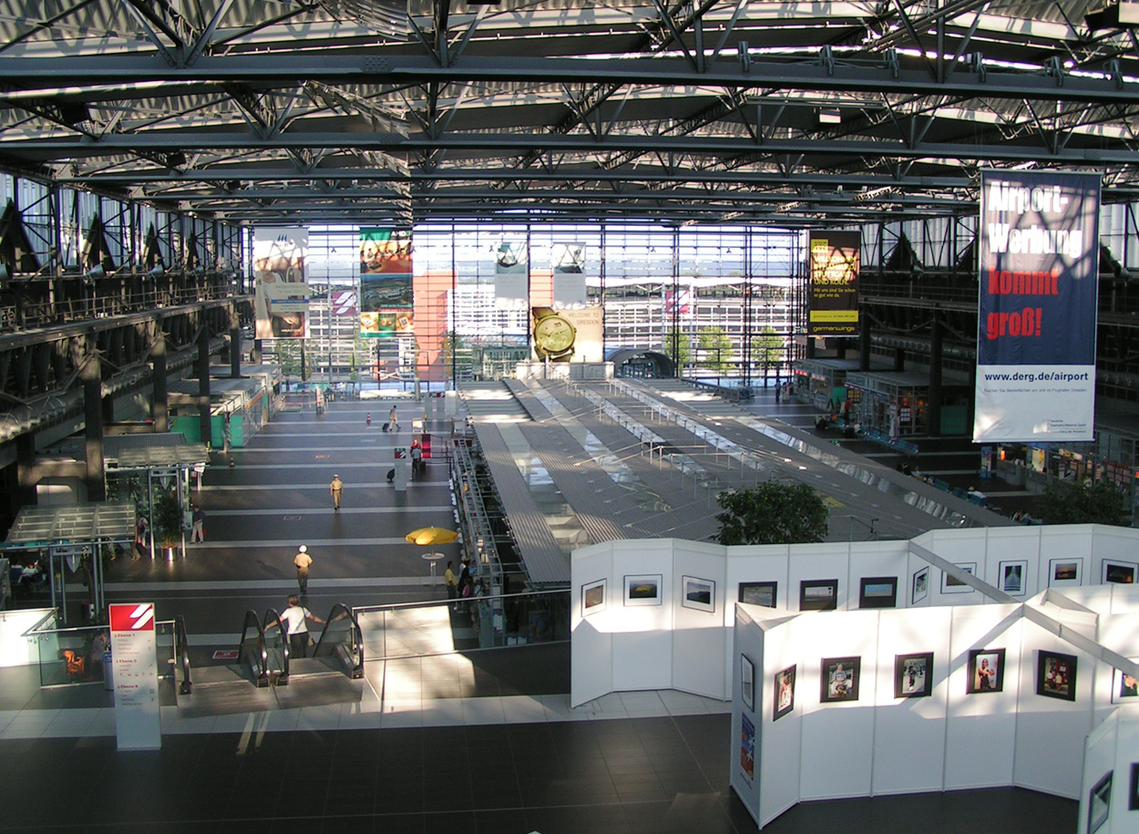 Interior view of the Dresden Airport terminal